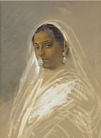 An Indian Lady of Rank